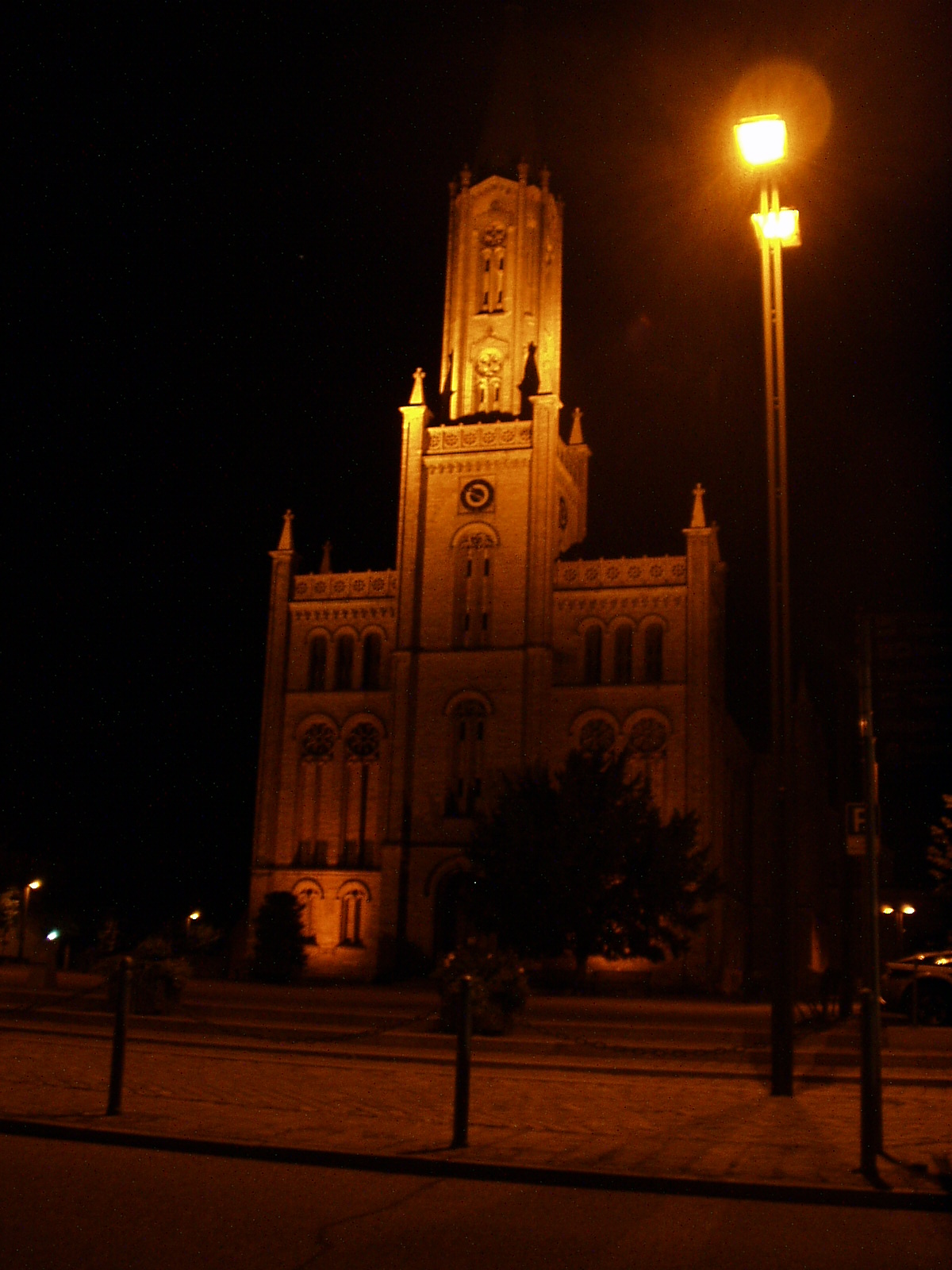 Lutheran Town Church in center of Fürstenberg upon Havel, March of Brandenburg, Germany